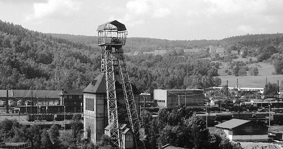 mine tower eugeniusz Wałbrzych